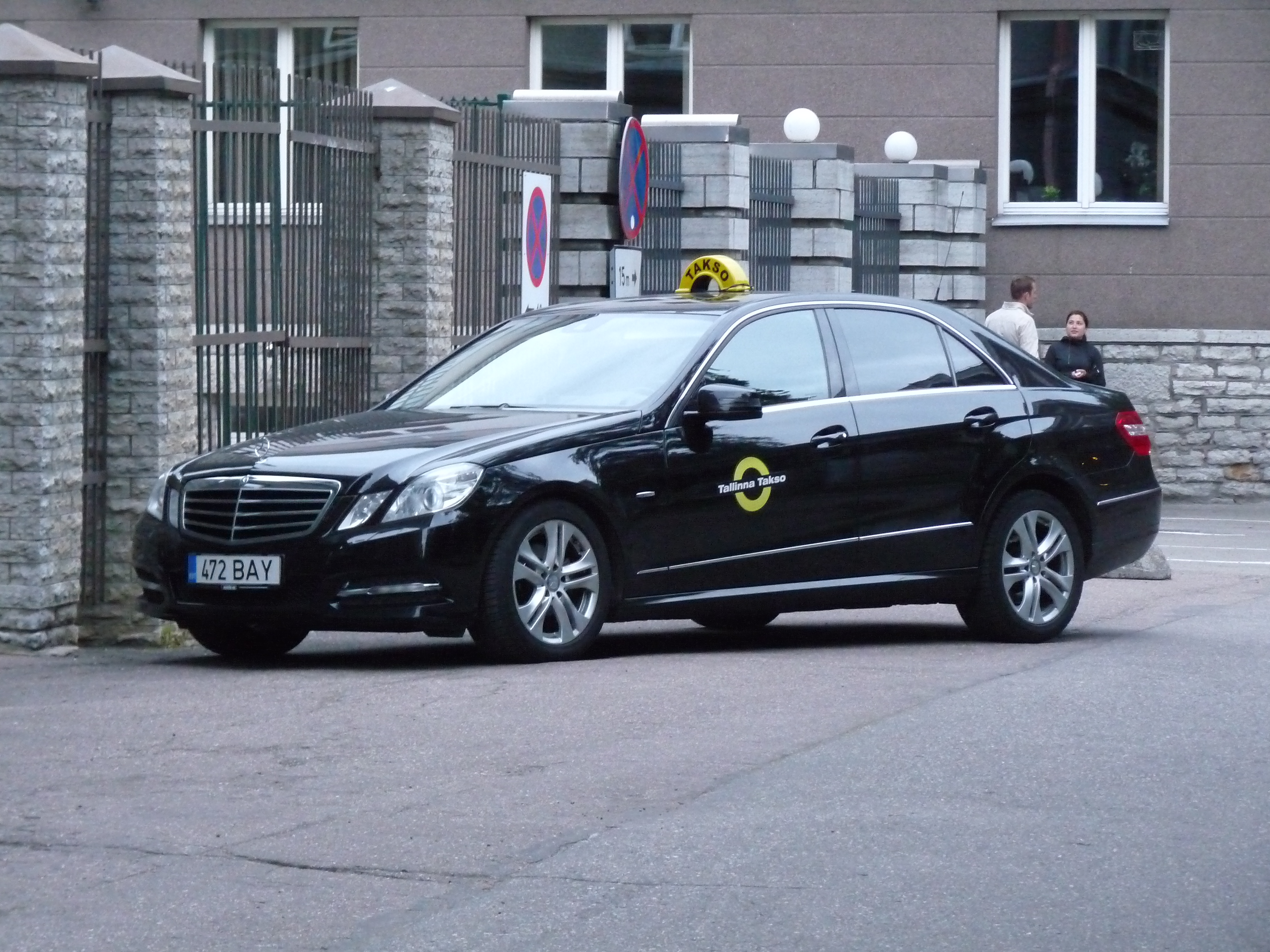 Taxi in Tallinn, Estonia